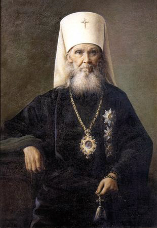 Macarius II From [1] photo 1915. Unknown author.